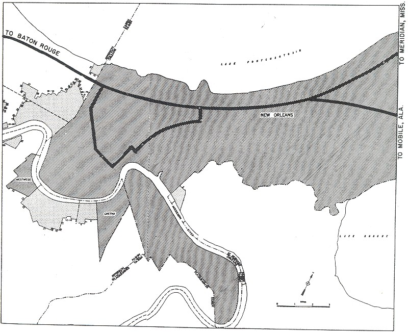 City map from the 1955 "Yellow Book" of Interstate Highway System plans, showing New Orleans. Interstates in today's terms I-10 I-59 I-610